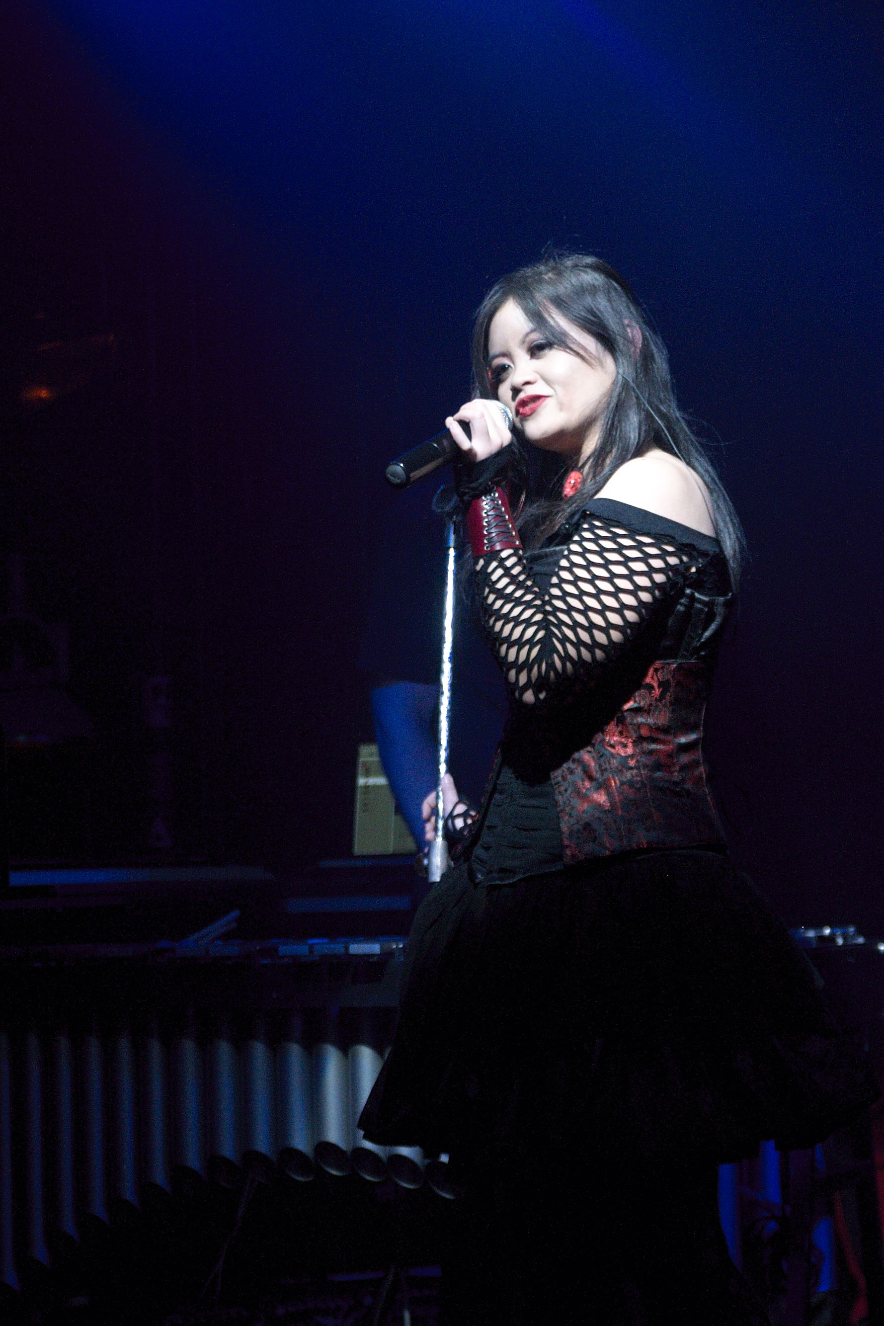 Australian singer Yunyu performing at The Revolver in Melbourne, 22 June 2012